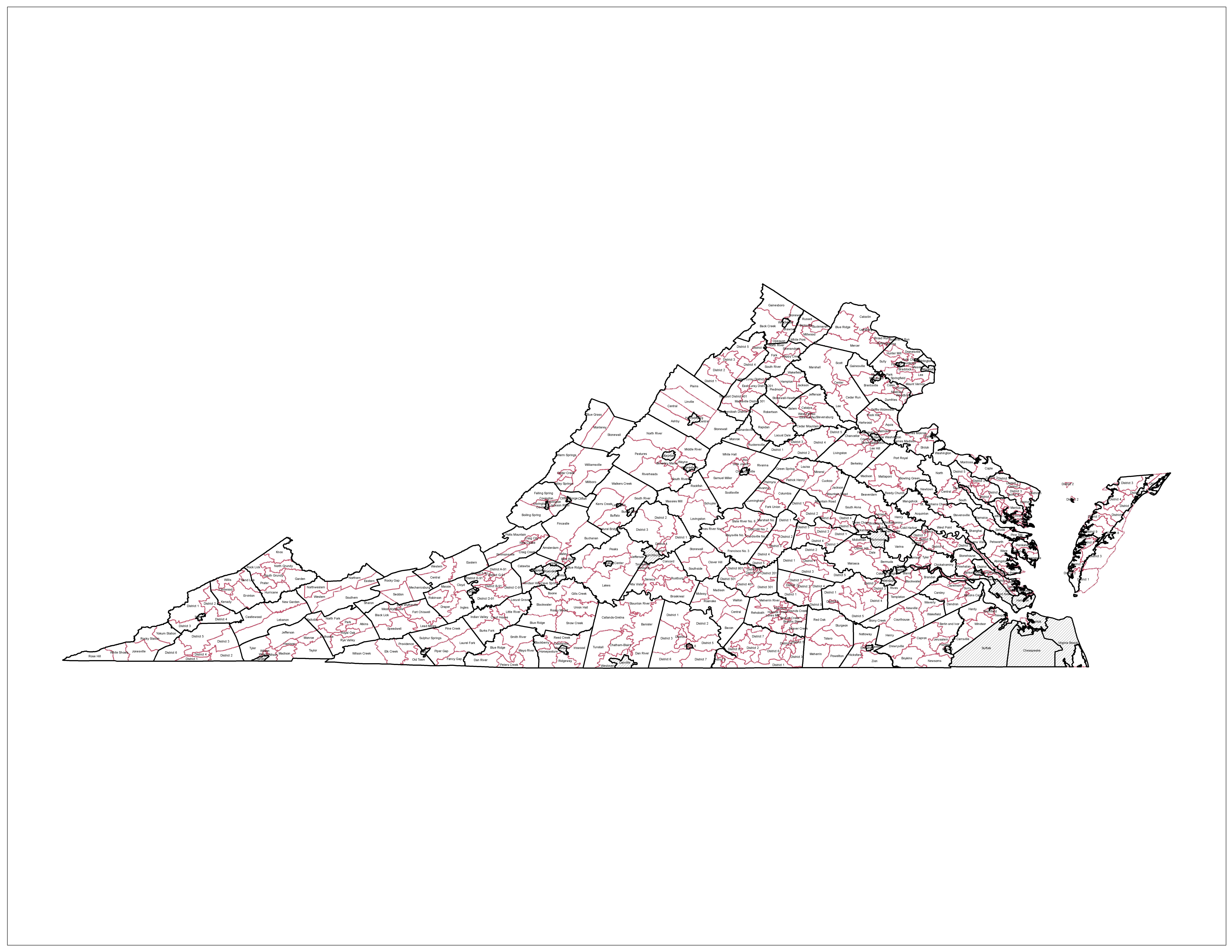 Outline map depicting magisterial districts in Virginia. Districts are labeled and Independent Cities are hatched.